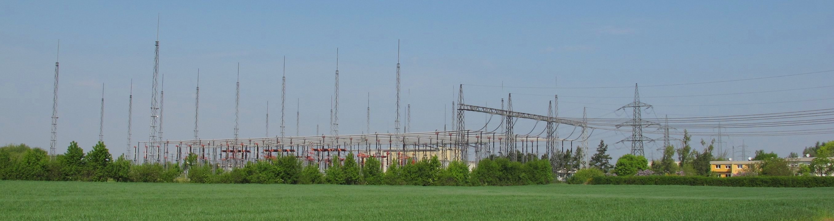 Dürnrohr substation; west side switchgear for 380 kV seen from the south. In the background the converter building of the former HVDC back-to-back station (GK Dürnrohr)